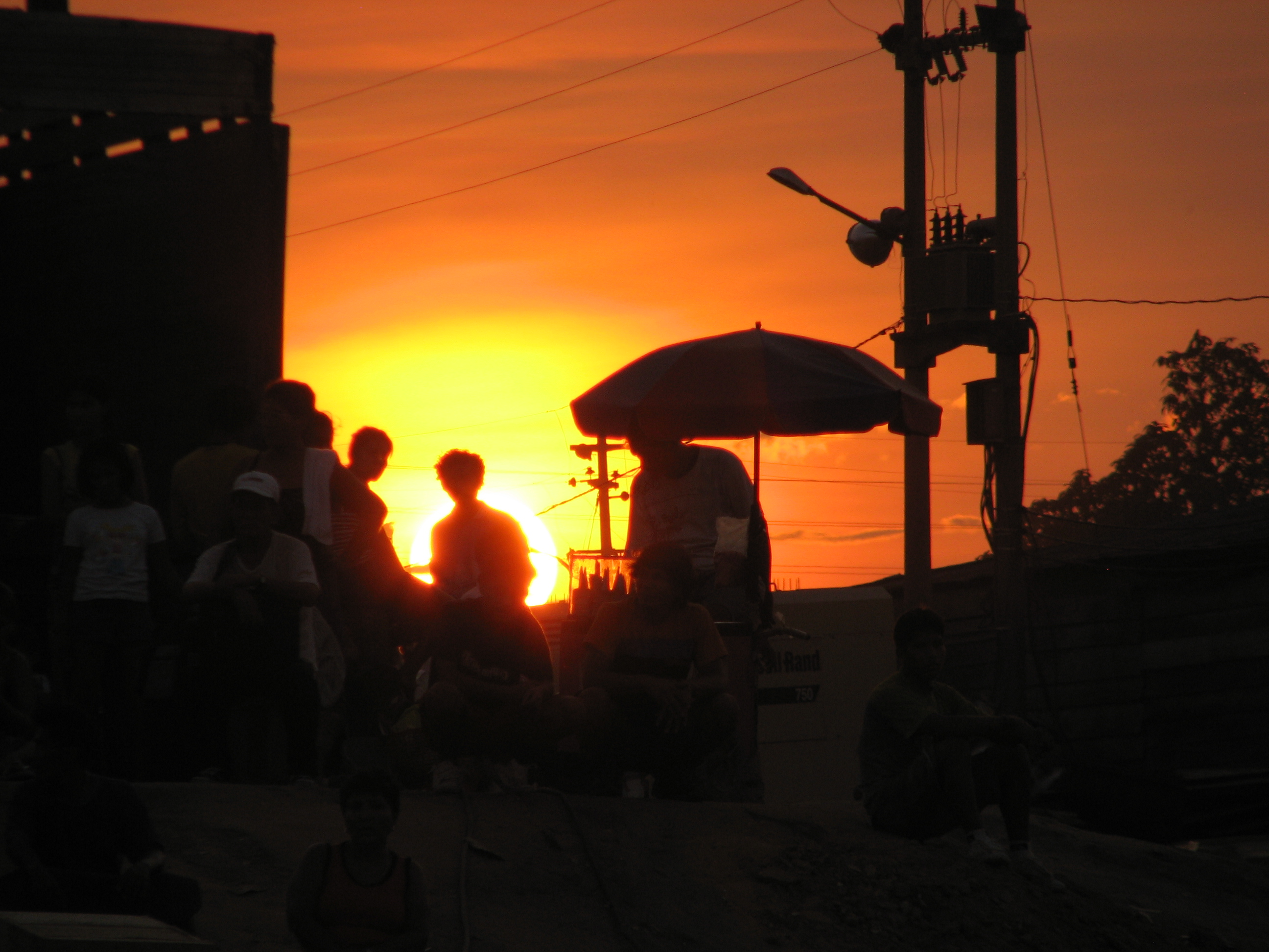 Sunset in Port Henry, Iquitos/Maynas — located in the Loreto Region of northeastern Perú.